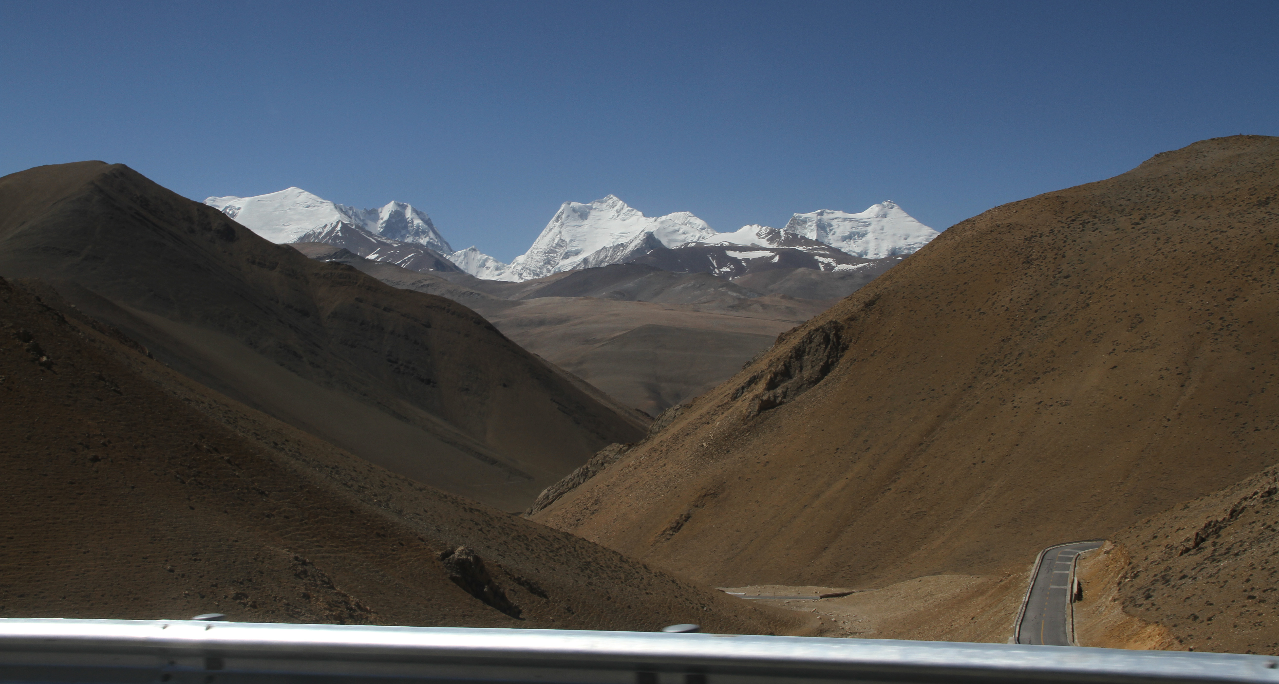 On the Friendship Highway in Tibet between Zhangmu and Lalung La